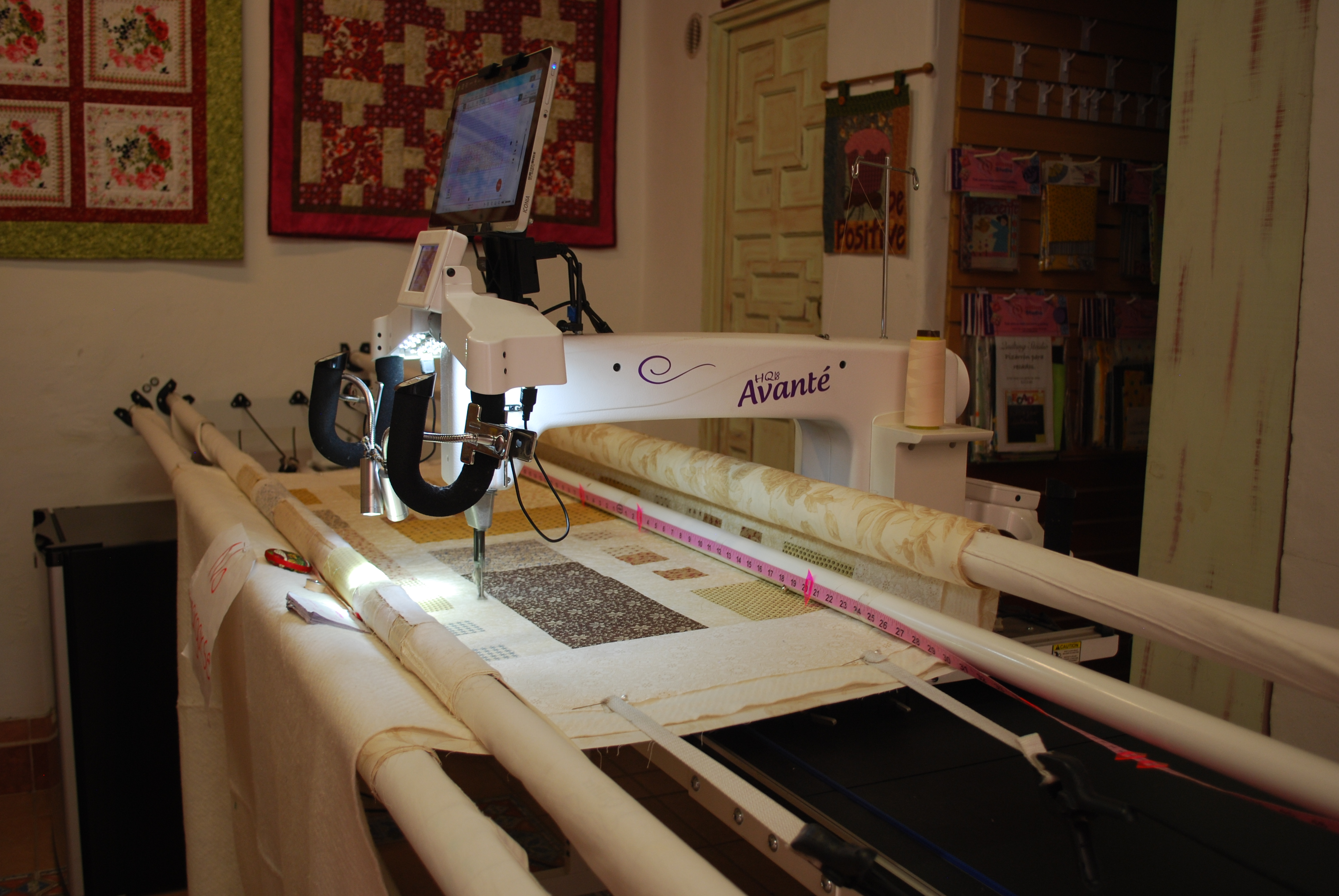 Quilting machine inside Quilting Studio, a quilter's supply shop in the San Angel neighborhood of Mexico City